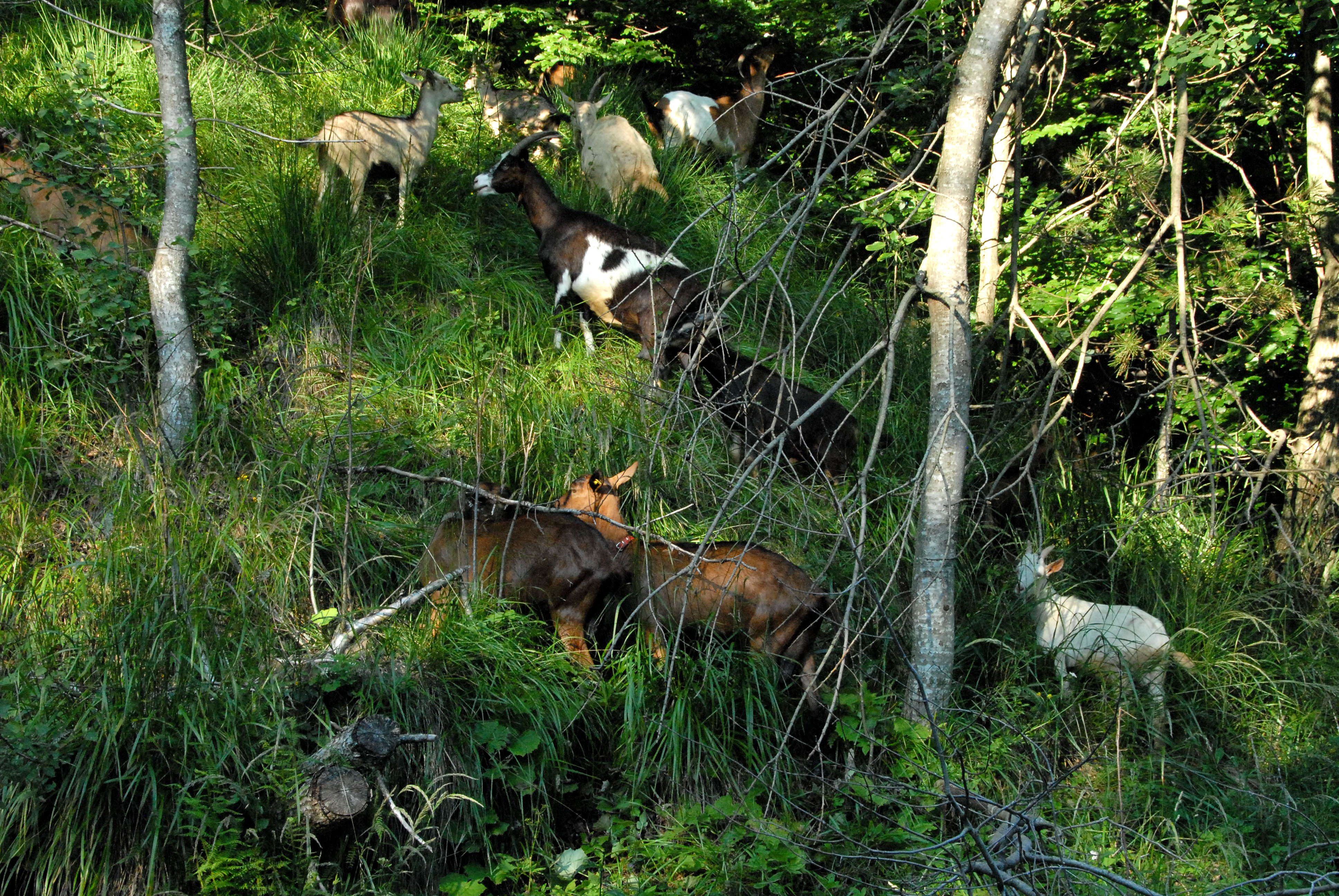 Goat-herd in the Uccea-valley, Friuli-Giulia Venezia, Italy